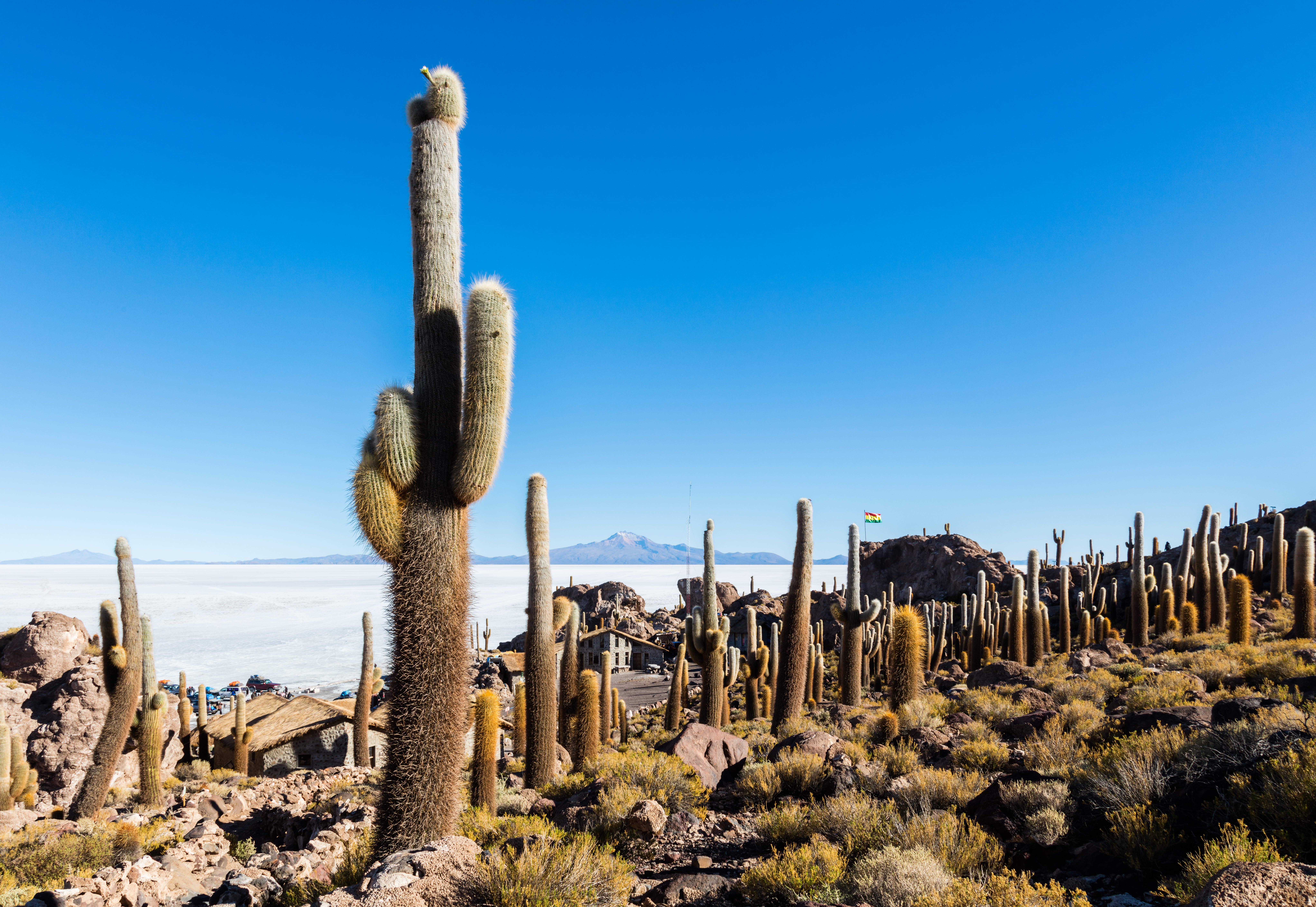 Isla Incahuasi, Salt flat of Uyuni, Bolivia